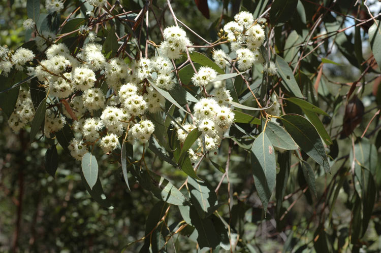 Foliage and flowers of Eucalyptus carnea in the Mount Coot-tha Botanic Gardens in Brisbane, Queensland